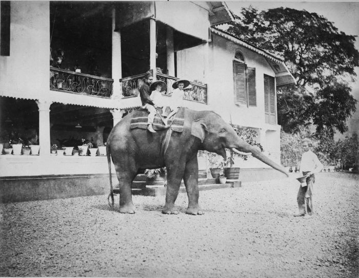 Children riding an elephant in front of the house of Europeans at a plantation, Dutch East Indies